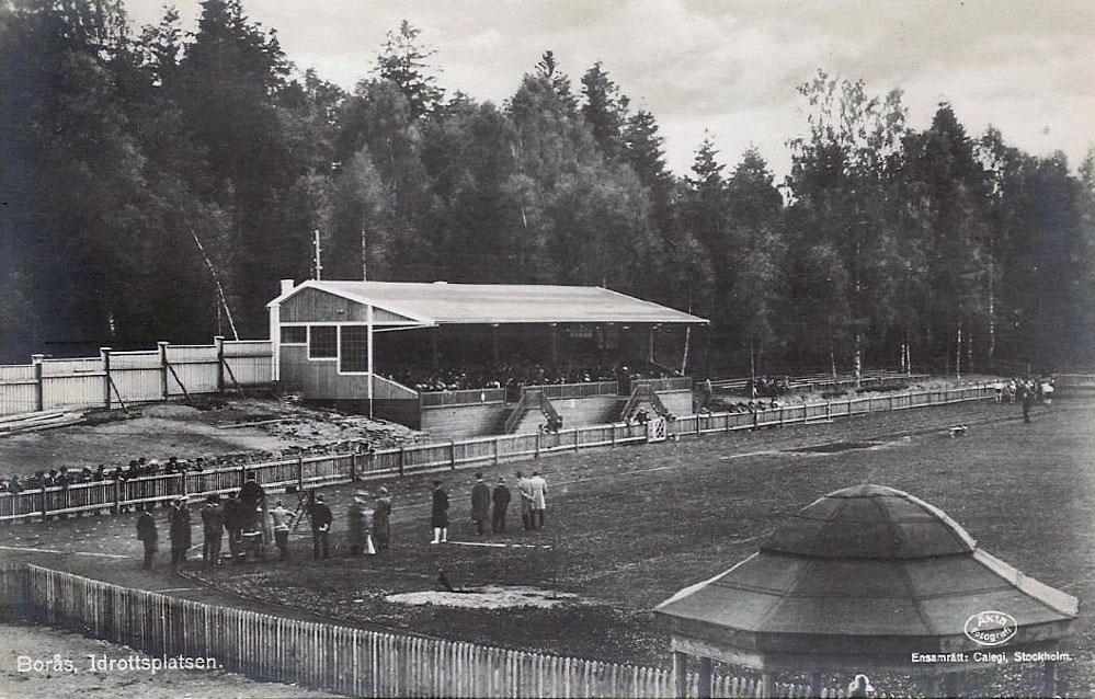 Photo of Ramnavallen. Called Borås Idrottsplats before (postcard).